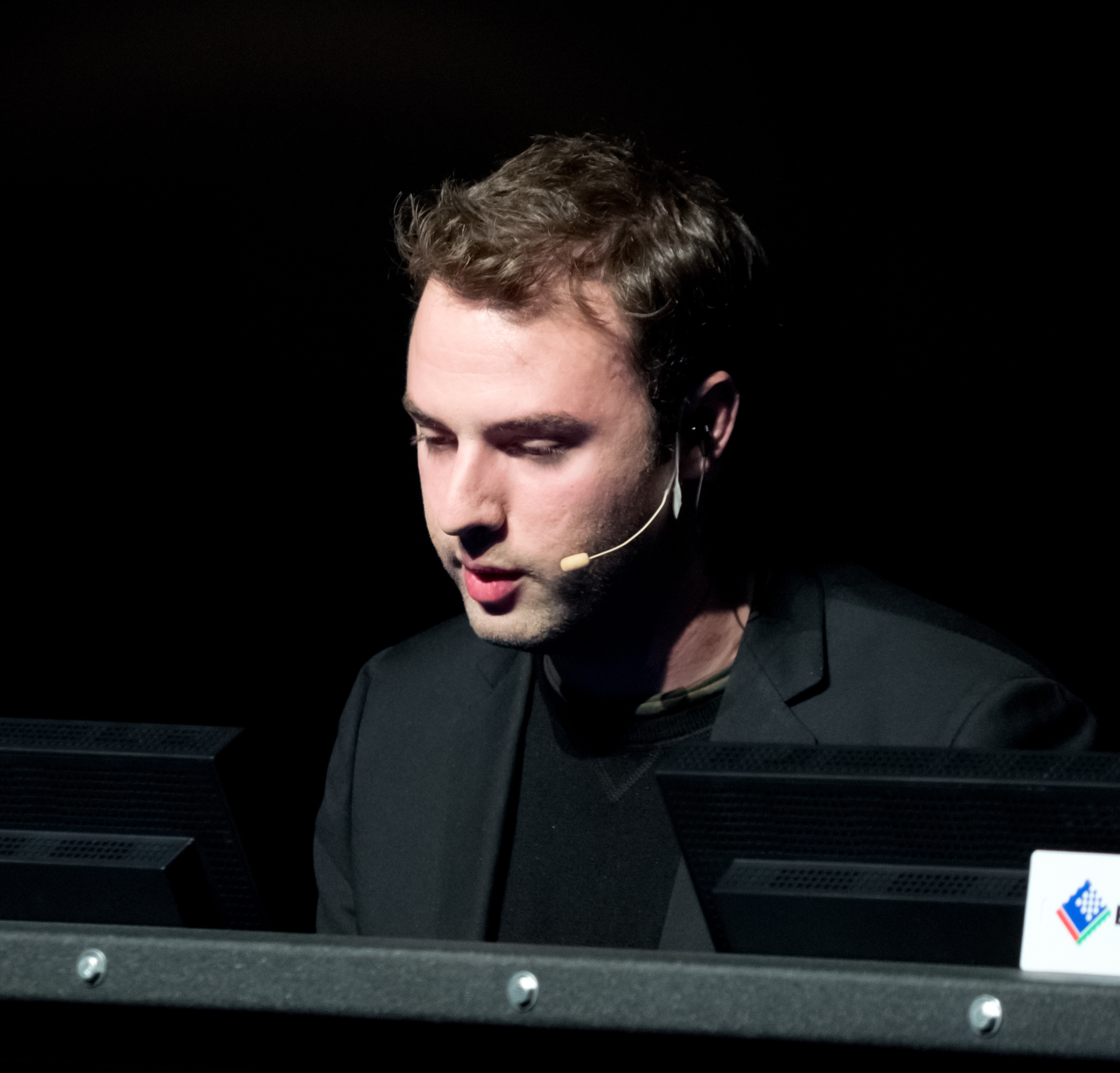 Cropped version of commons file File:NASL Season 2 Grand Finals.jpg